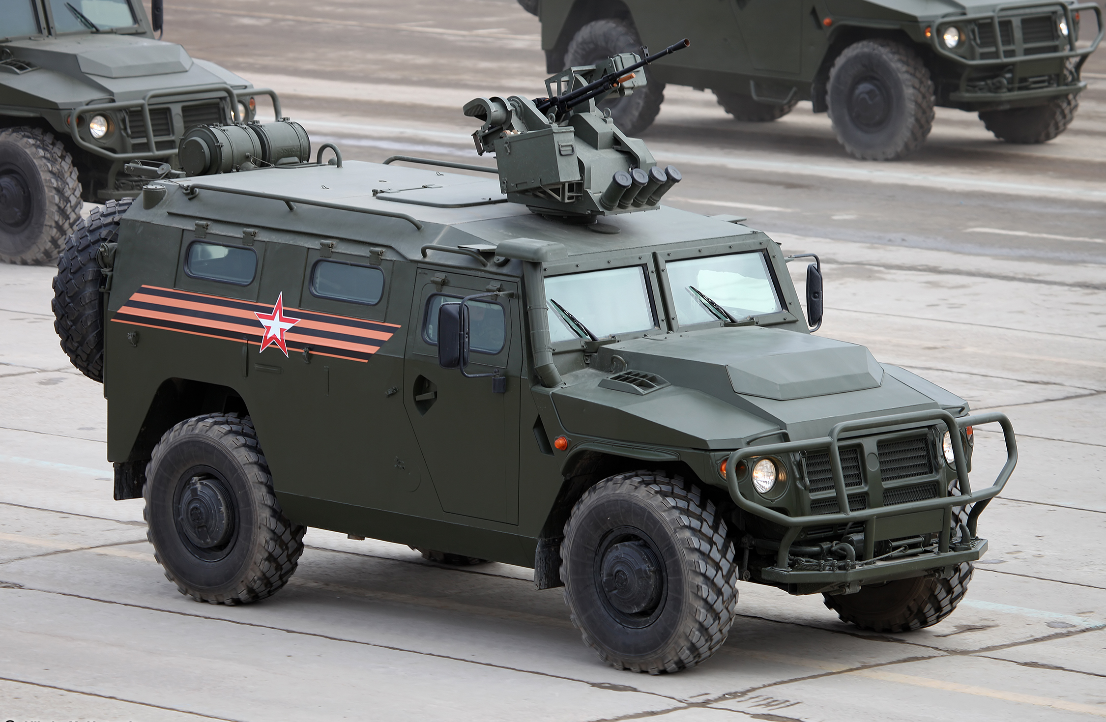 AMN 233114 Tigr-M with remote controlled turret Arbalet-DM